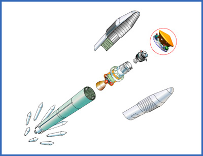 The Mars Exploration Rover A (Spirit) mission will use a standard Delta II 7925 when it launches (between May 30 and June 16, 2003). The later MER B (Opportunity) launch (between June 25 and July 12, 2003) will need more energy to get to Mars, so it will launch on a Delta II 7925H, where "H" stands for "Heavy". This diagram shows the solid-fuel rocket engines, stages 1, 2 and 3, the fairing halves, and the MER spacecraft (circled).